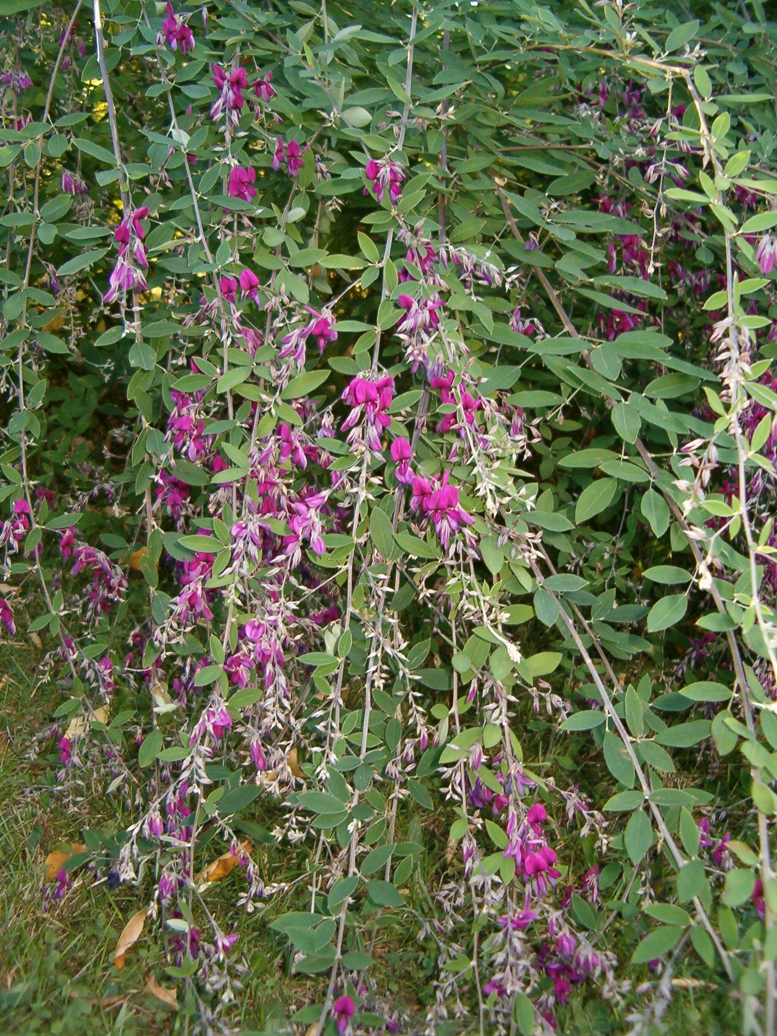 Lespedeza thunbergii Location: Botanical Gardens Berlin